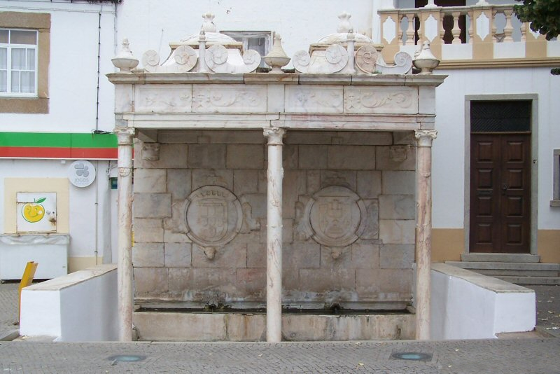 Alter do Chão is a municipality in Portugal with a total area of 362.0 km² and a total population of 3,666 inhabitants. The municipality is composed of 4 parishes, and is located in the District of Portalegre.